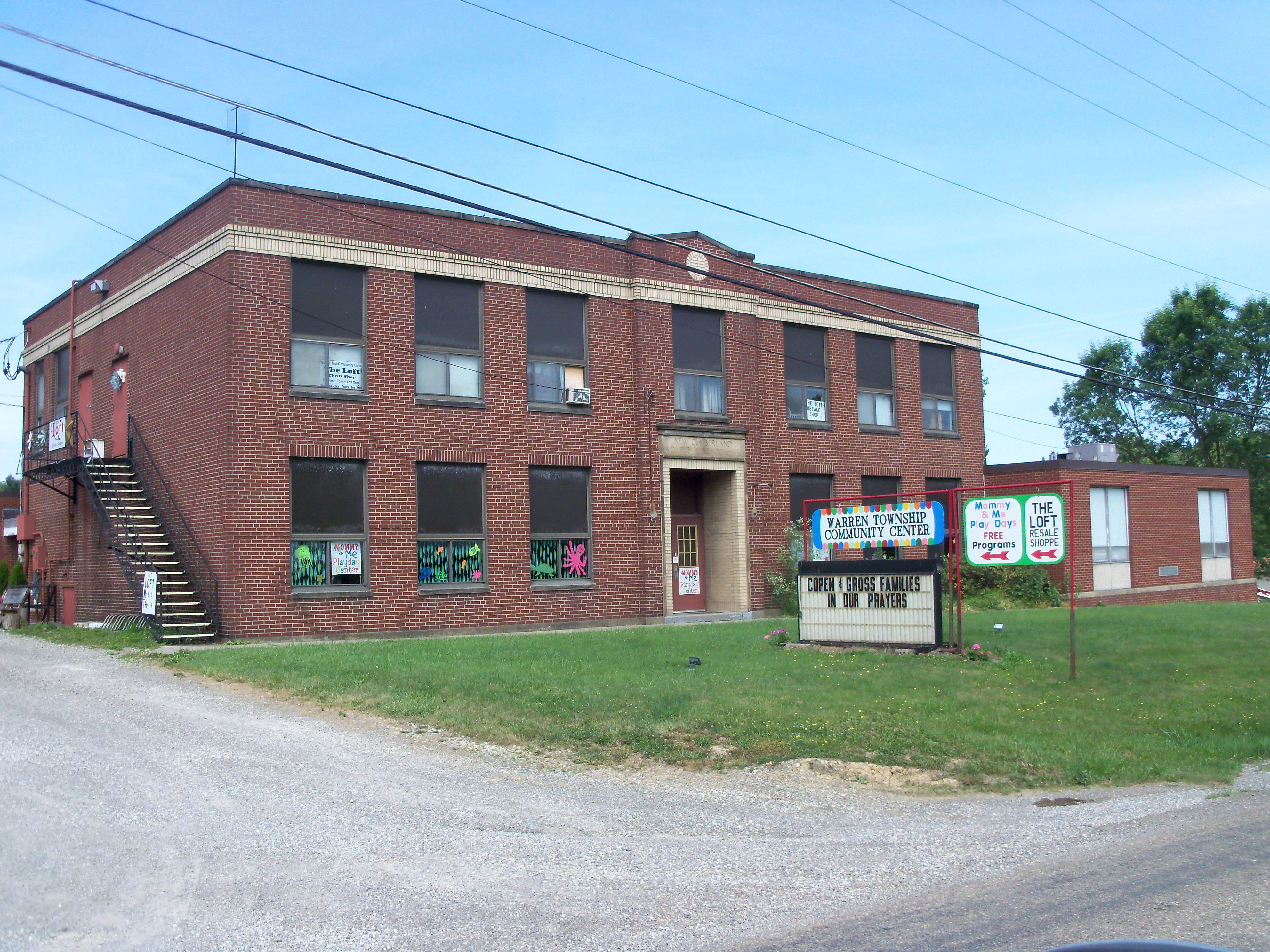 New Cumberland, Ohio School Building, 1932, now repurposed as community center